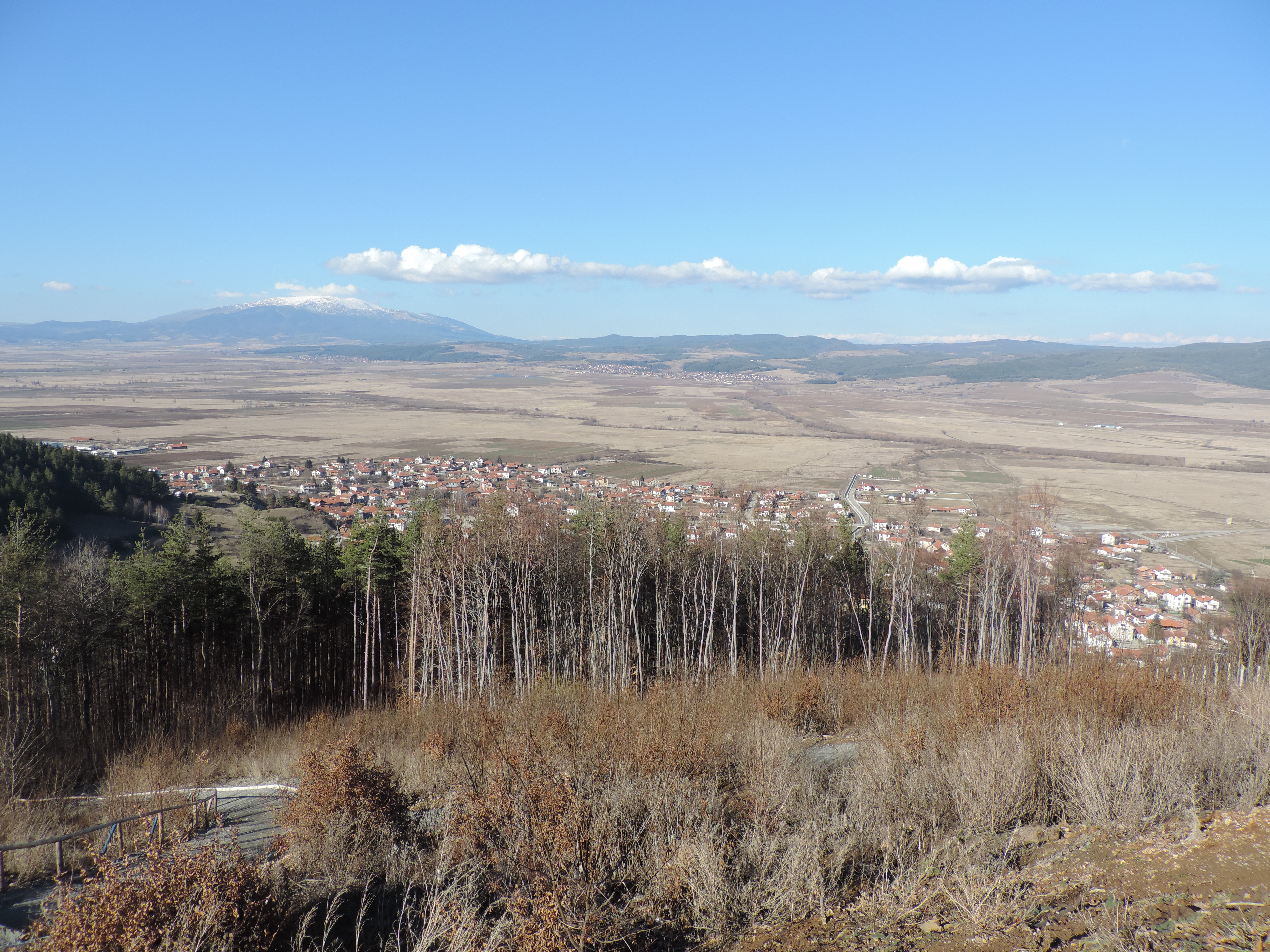 Protected locality Palakaria in Bulgaria – the valley between mountain Vitosha and Rila. To the front: village of Belchin